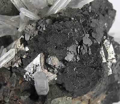 Quartz, Sphalerite, Chalcopyrite Locality: Huaron Mining District, San Jose de Huayllay District, Cerro de Pasco, Daniel Alcides Carrión Province, Pasco Department, Peru (Locality at ) Size: 7.9 x 5.9 x 5.4 cm. Elegant, slender prisms of quartz stick up from a matrix of rounded dark sphalerite crystals - accented by sparing chalcopyrite.